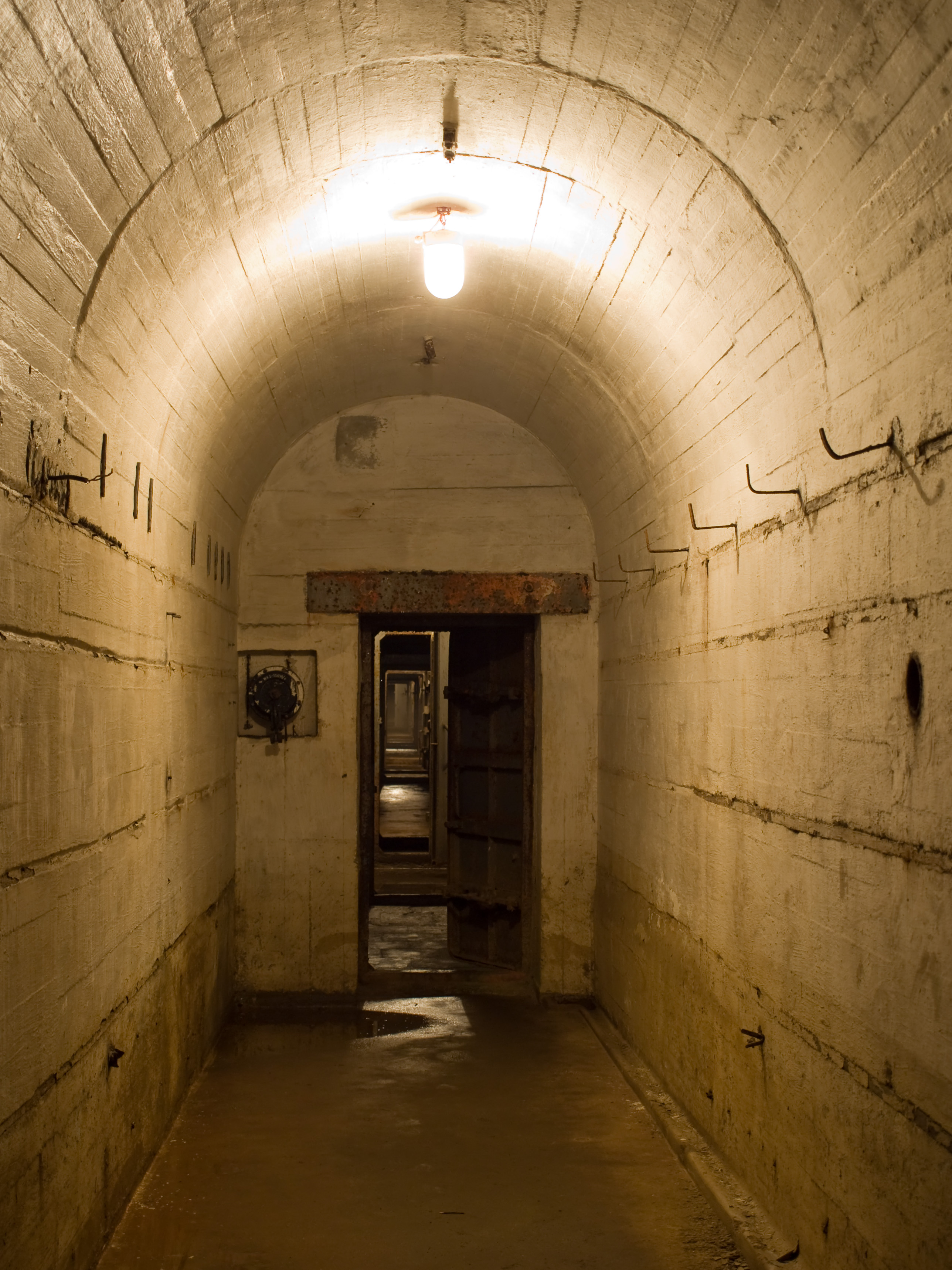 Military tunnel, Stępina, Subcarpathian Voivodeship